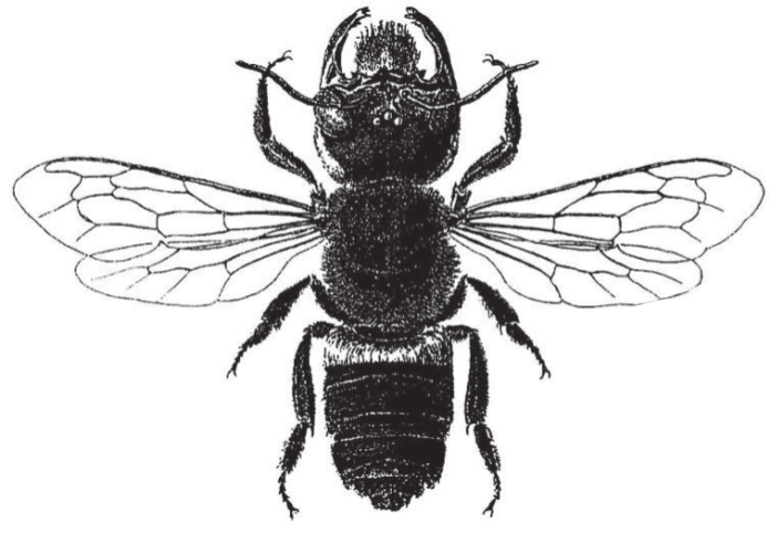 The female Megachile pluto, shown here in this drawing by Dr H Friese (1911), is covered with velvety black fur but she has a band of white fur on the front part of her abdomen. She has enormous jaws for collecting resin.